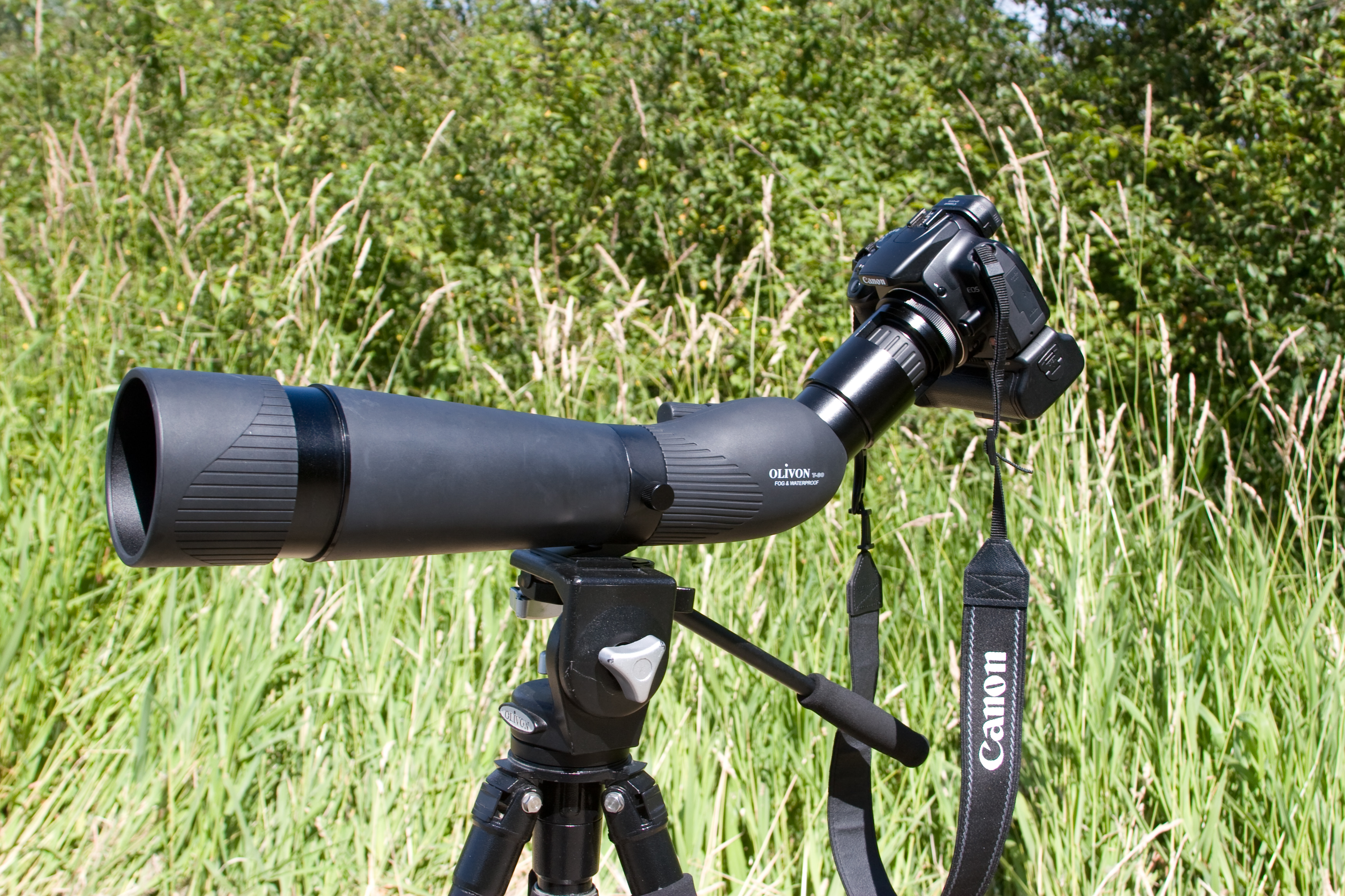 Canon EOS Camera and Olivon telescopic lens set up on a on a tripod for taking photographs of birds.